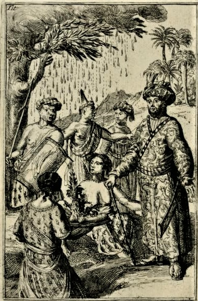 Suleiman of Persia / Sam Mirza / Safi II / Suleiman I / Shah Soleiman (1666-1694) Published in Voyage, ou relation de l'etat present du royaume de Perse in 1695